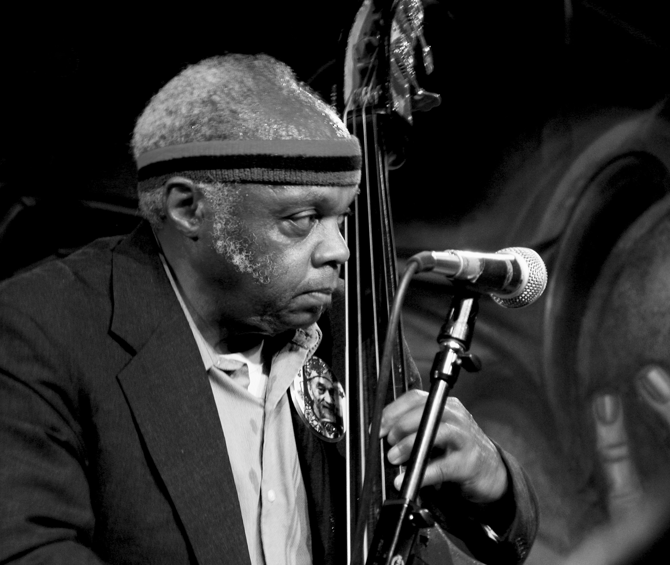 Henry Grimes Quartet @ HotHouse (Chicago, 12/03/2005)